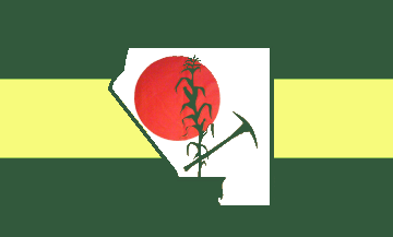 This is the official flag for St. Clair County, Illinois.